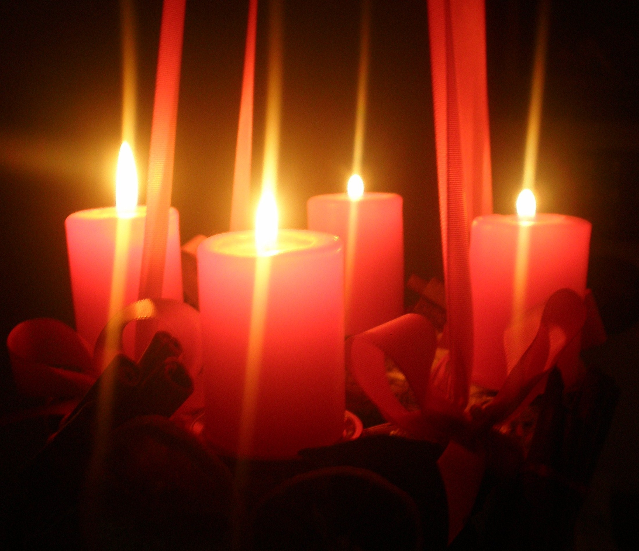 Advent wreath